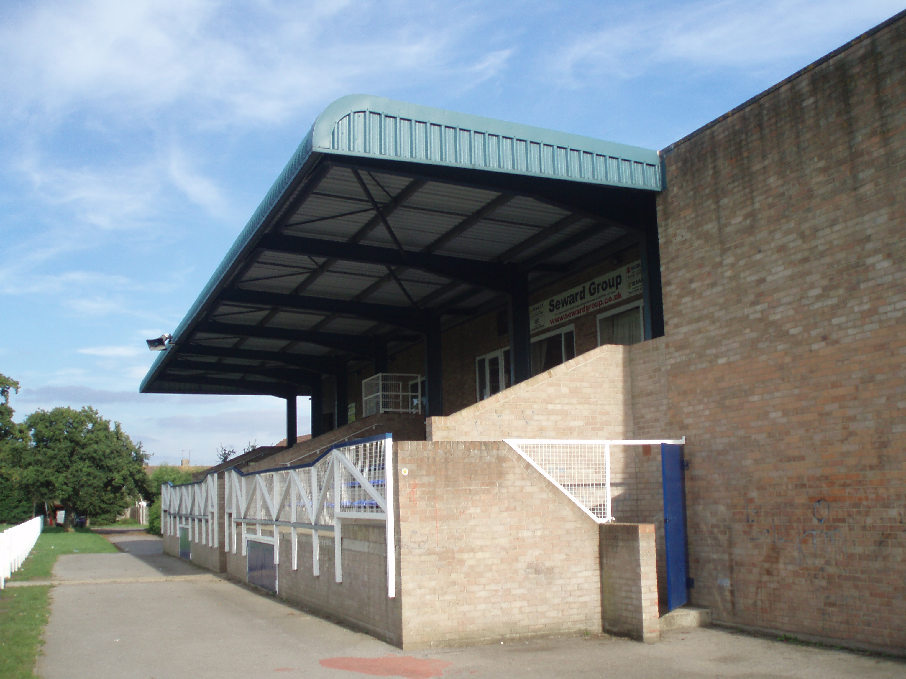 Havant RFC, Hooks Lane, Bedhampton; Photo taken 27th August 2007